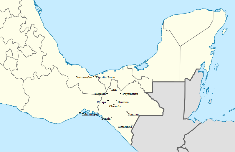 Cities in the area of the Isthmus of Tehuantepec circa 1500s